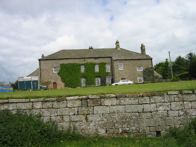 East Shaftoe Hall. Keys to the Past Web Site: A late 13th or 14th century tower forms the earliest part of East Shaftoe Hall. It stands at the west end of a 16th century house which has 17th and 18th century alterations. The tower has walls up to 1.3m thick and in the basement there is a barrel vault. The early 16th century house seems to have been altered later that century into an 'H' strong house. In the 17th century it was altered again and became a more conventional house, and in the 18th century quite drastic alterations were made. These entailed reducing the height in some areas and heightening others and replacing all the mullioned windows with sash windows.